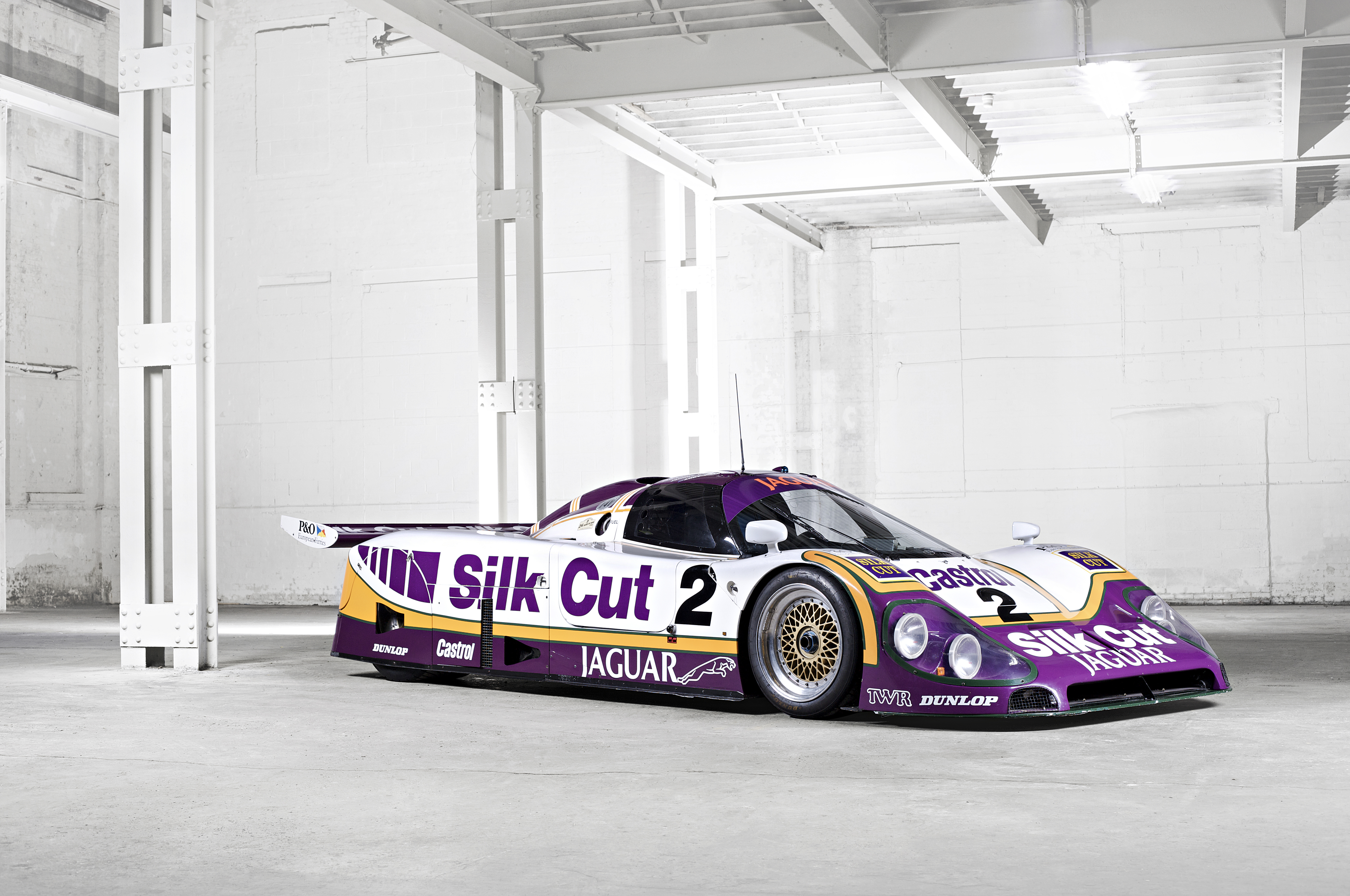 Expert motoring fans including Brian Johnson of rock band AC/DC, Goodwood's Lord March and Jaguar's Director of Design Ian Callum have chosen their 'perfect ten' - the most important and iconic Jaguar cars of all time. The list comes ahead of the worldwide reveal of Jaguar's all-new sports saloon, the Jaguar XE. Discover more